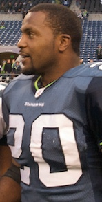 Seattle Seahawks running back Maurice Morris after the game against the Philadelphia Eagles on November 2, 2008 at Qwest Field.